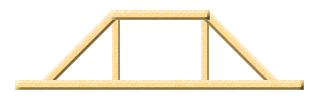 I created this image myself. Zab 08:06, 25 May 2007 (UTC)